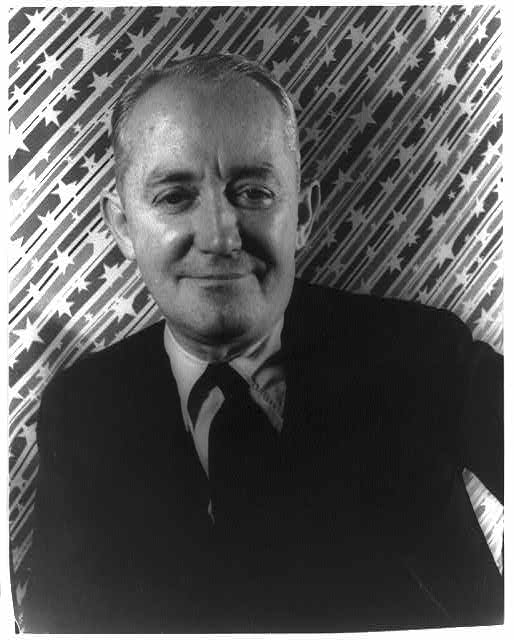 George M. Cohan, American entertainer, playwright, composer, lyricist, actor, singer, dancer, director. He is considered the father of American musical comedy.Portrait of George M. Cohan (1933 October 23)